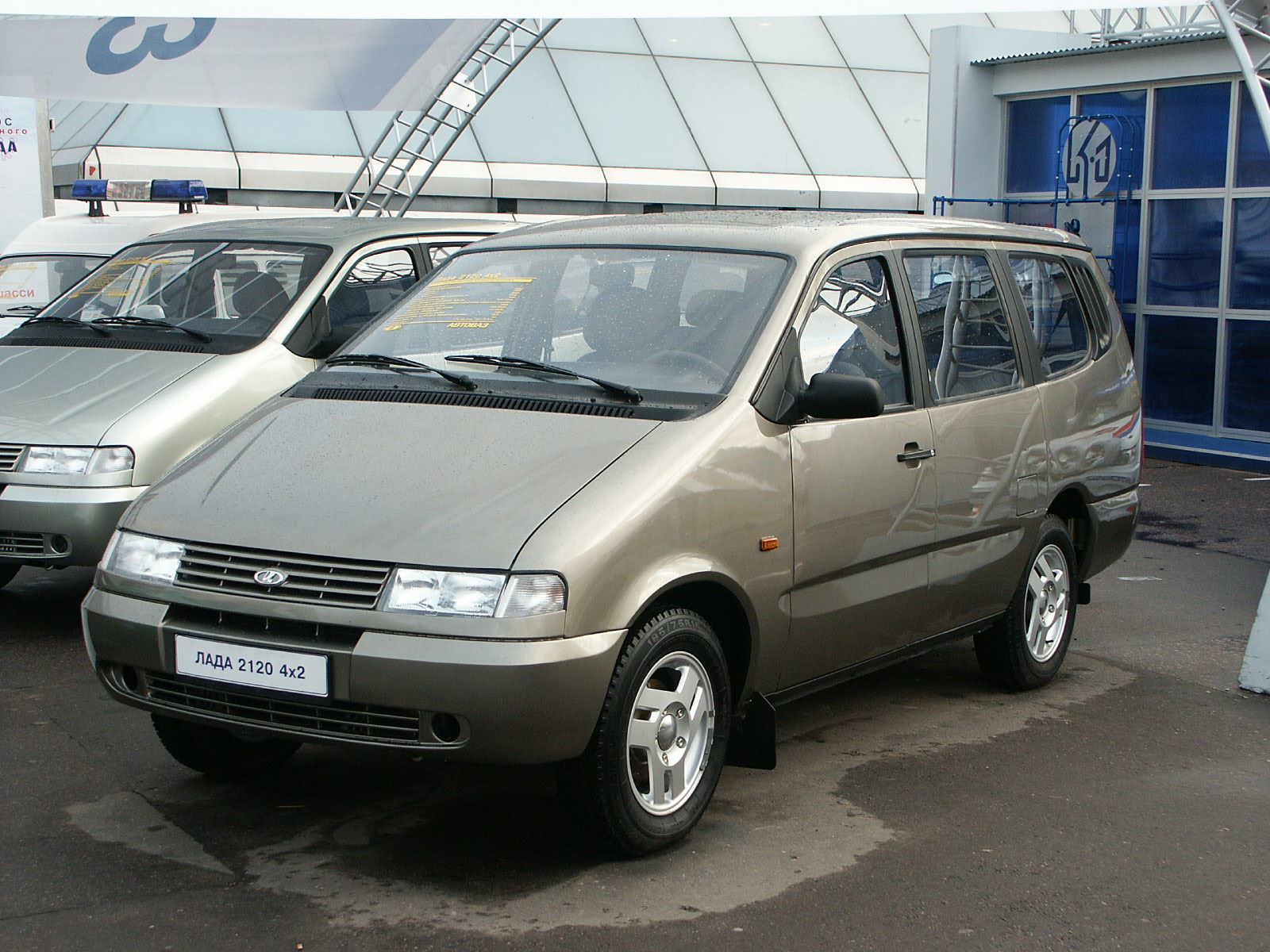 Lada vehicle on forecourt